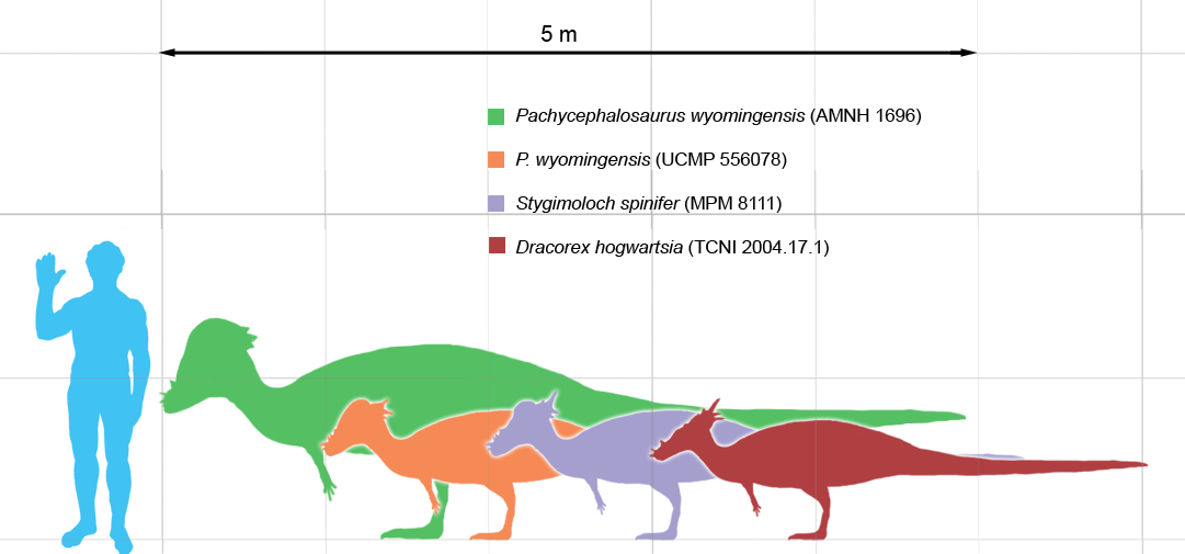 Size comparison of Pachycephalosaurus wyomingensis and a human.